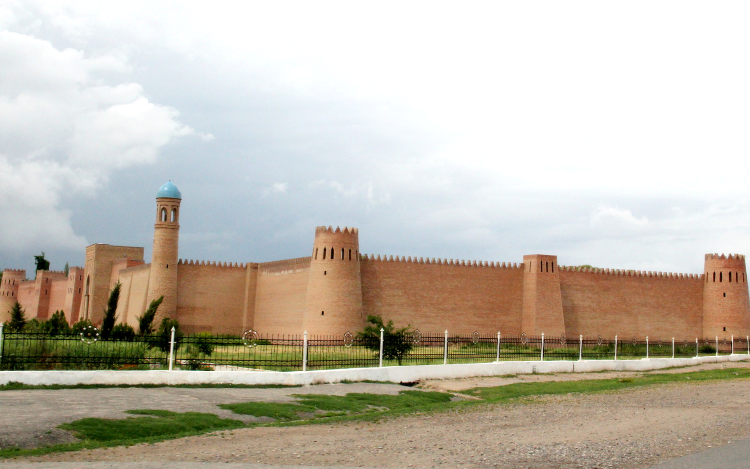 Historical Places